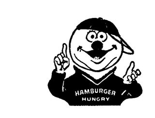 Image of the Hamburger Hungry mascot used by the defunct Red Barn restaurant chain.